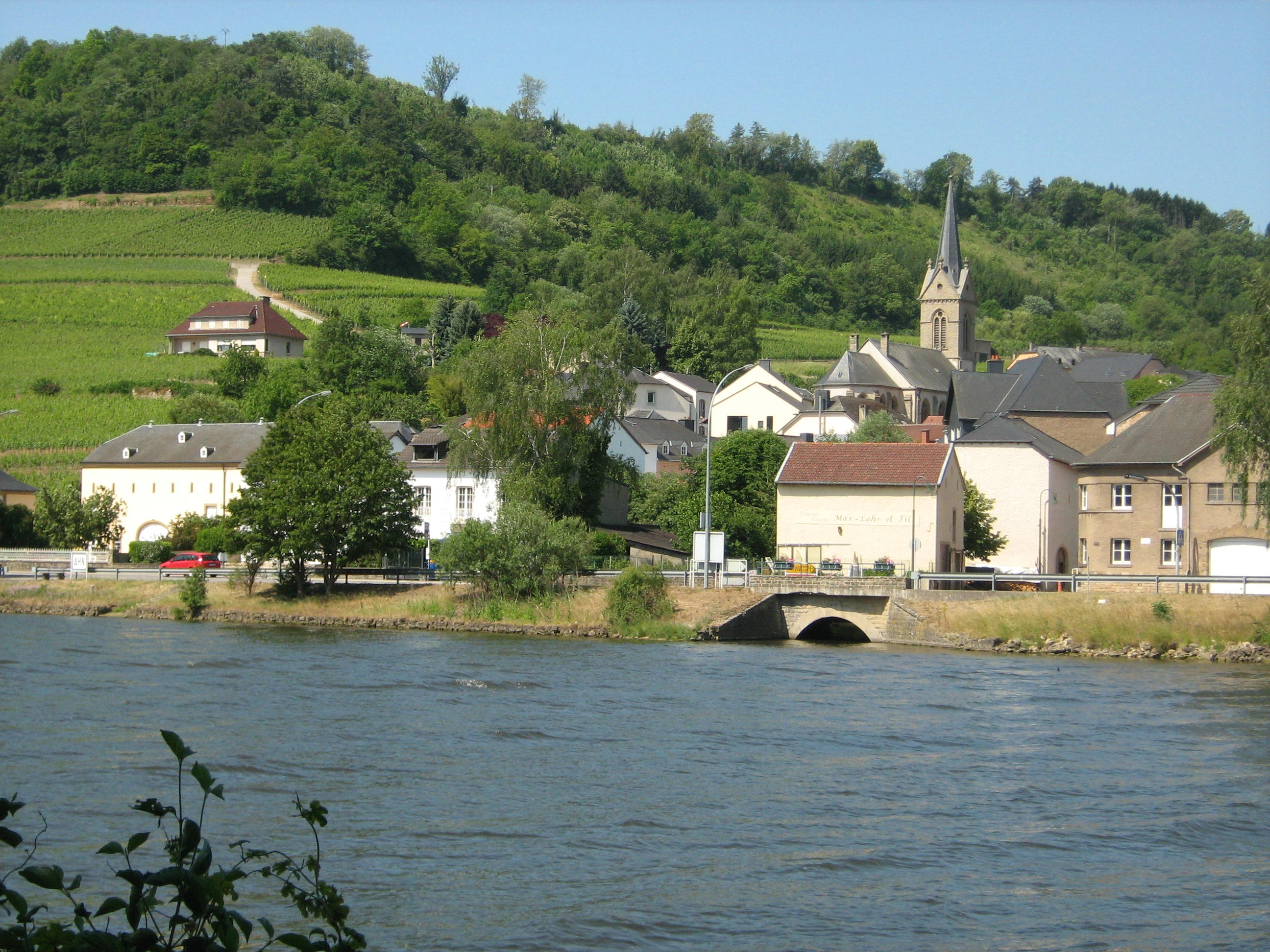 Ahn, Luxembourg, seen from the German side of the River Moselle.